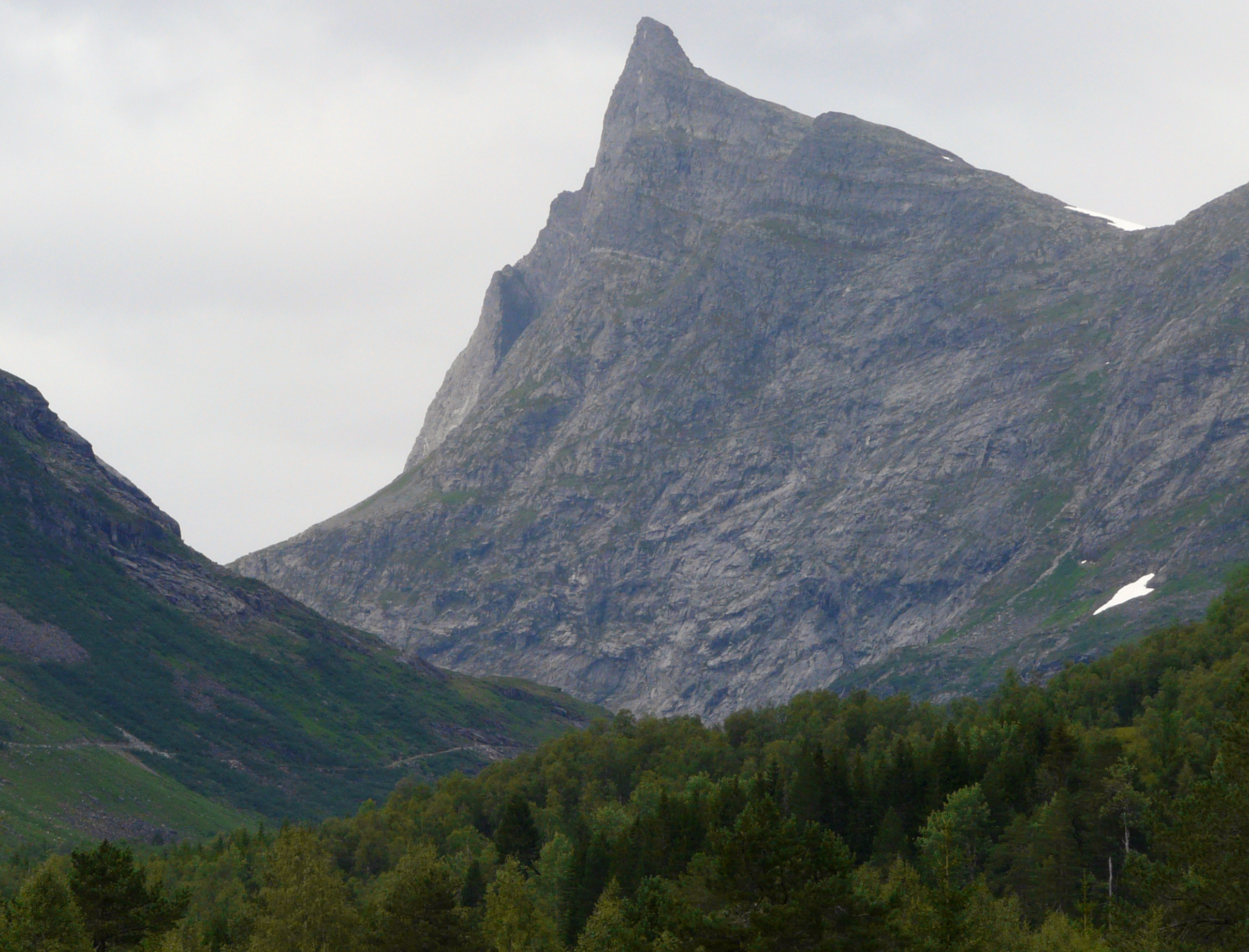 Hornindalsrokken peak as seen from the south from the road 60 in Hornindal municipality of Norway in 2008 August.